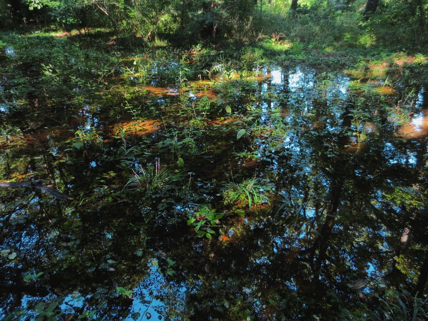 The headwaters of Kurome-gawa River in Kodaira Cemetary Park